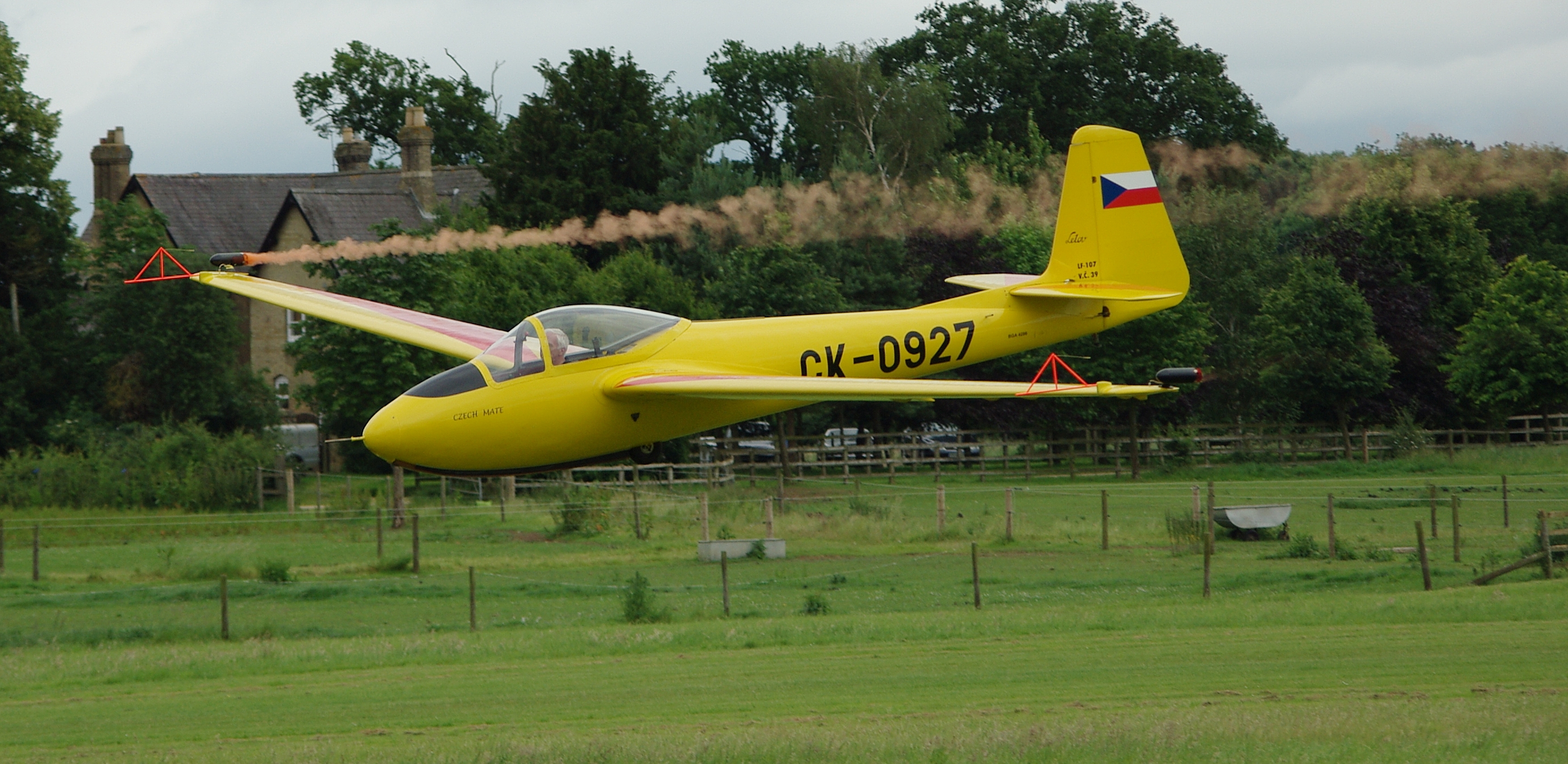 Lunak after aerobatics at Old Warden June 2014